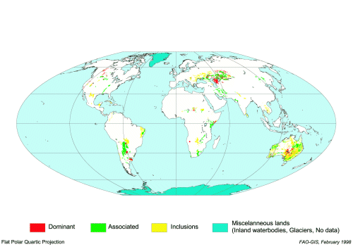 distribution of Solonetzs